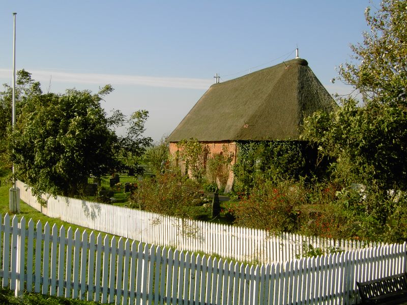 Shows the Church on the small German island Hooge in the North Sea. Shot by Mghamburg